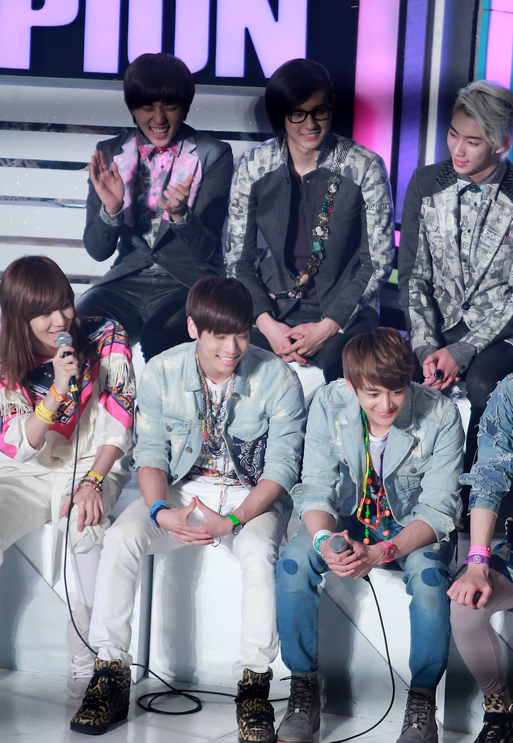 Shinee and B1A4 at the Show Champion on March 27, 2012.